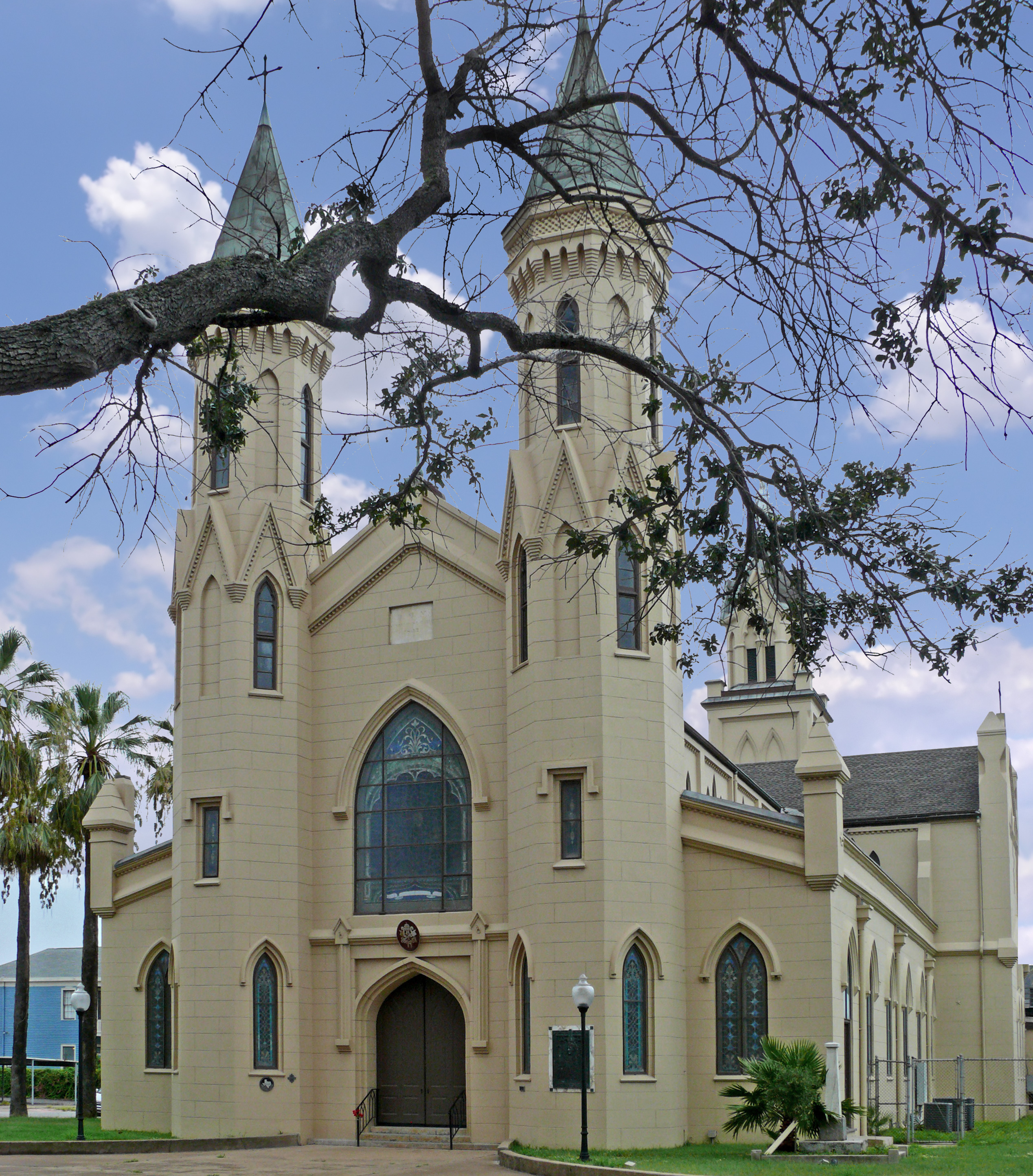 City's oldest surviving church. Built 1847 by the most Rev. John M. Odin, C. M., Early missionary, and first bishop of Texas. Gift of half a million bricks from Antwerp, Belgium, made structure possible. Gothic cathedral is preserved in original style. After disastrous flood of 1875, tower was crowned with status of Mary, Star of the Sea, which has withstood storms ever since. Fine stained glass windows and rich altars are notable features.